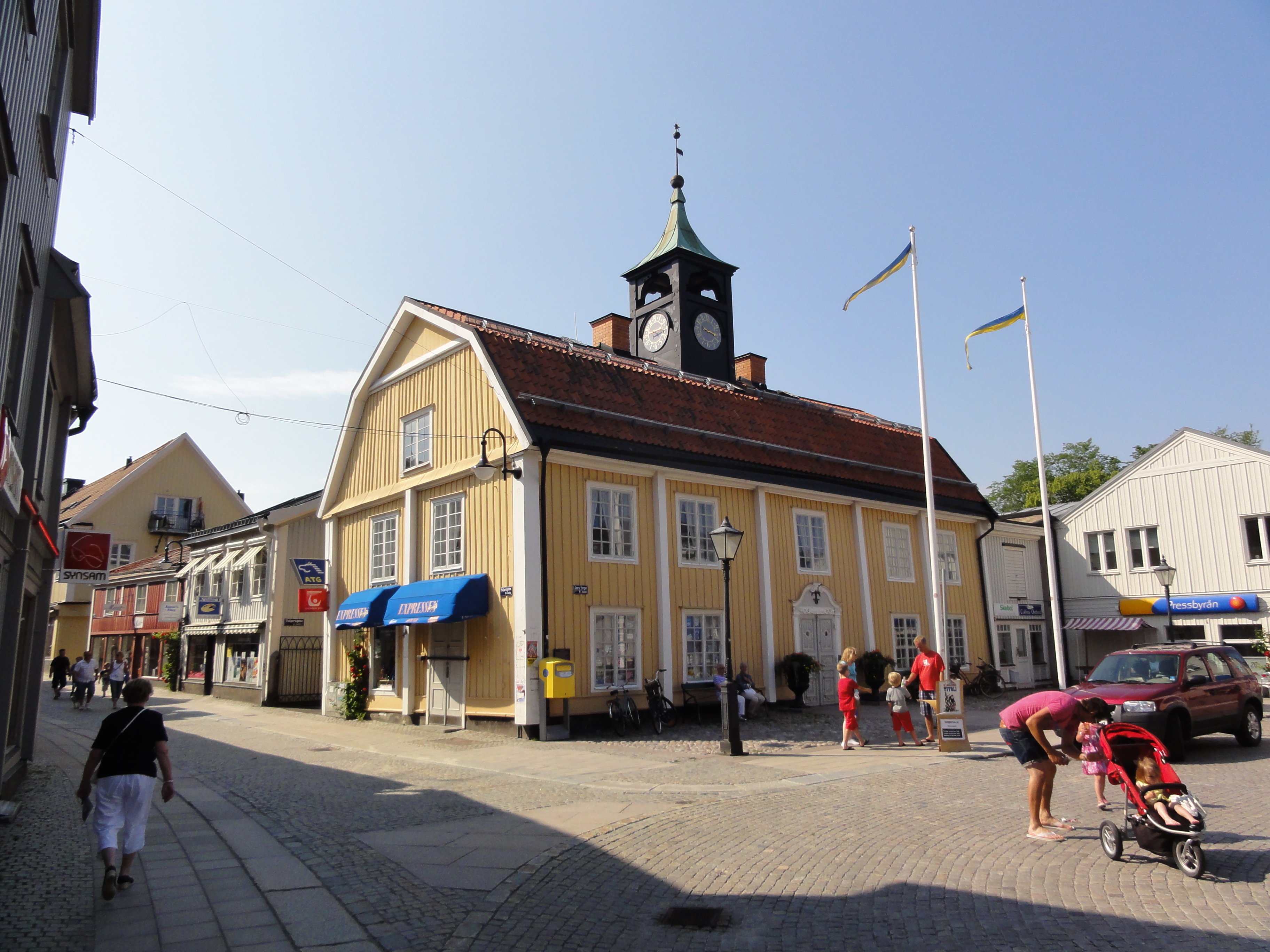 City hall in Norrtälje Unknown